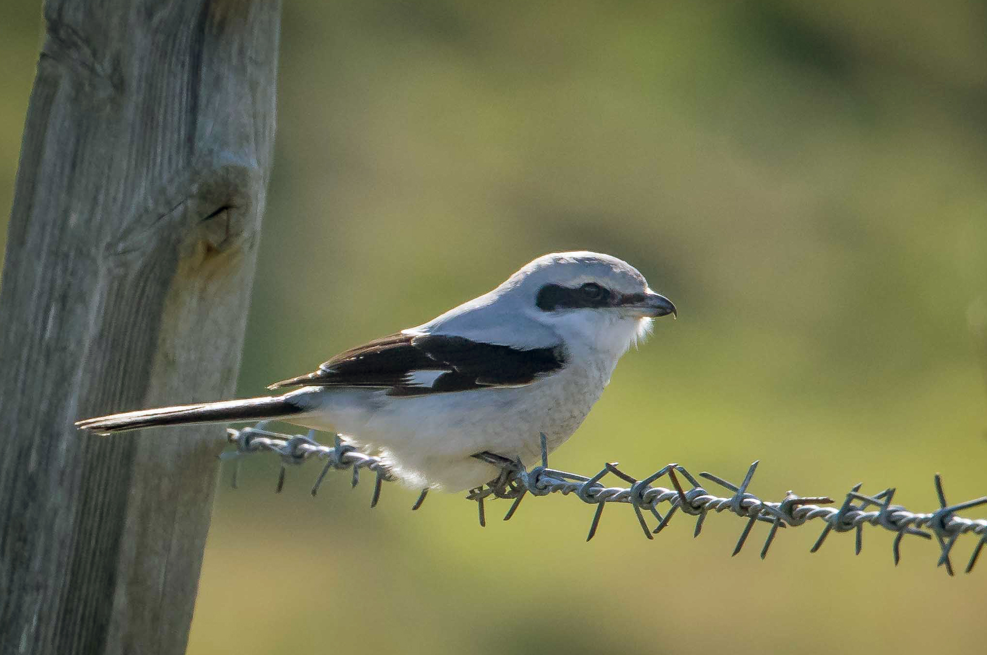 Great Grey Shrike Lanius excubitor excubitor, Chilham, Kent